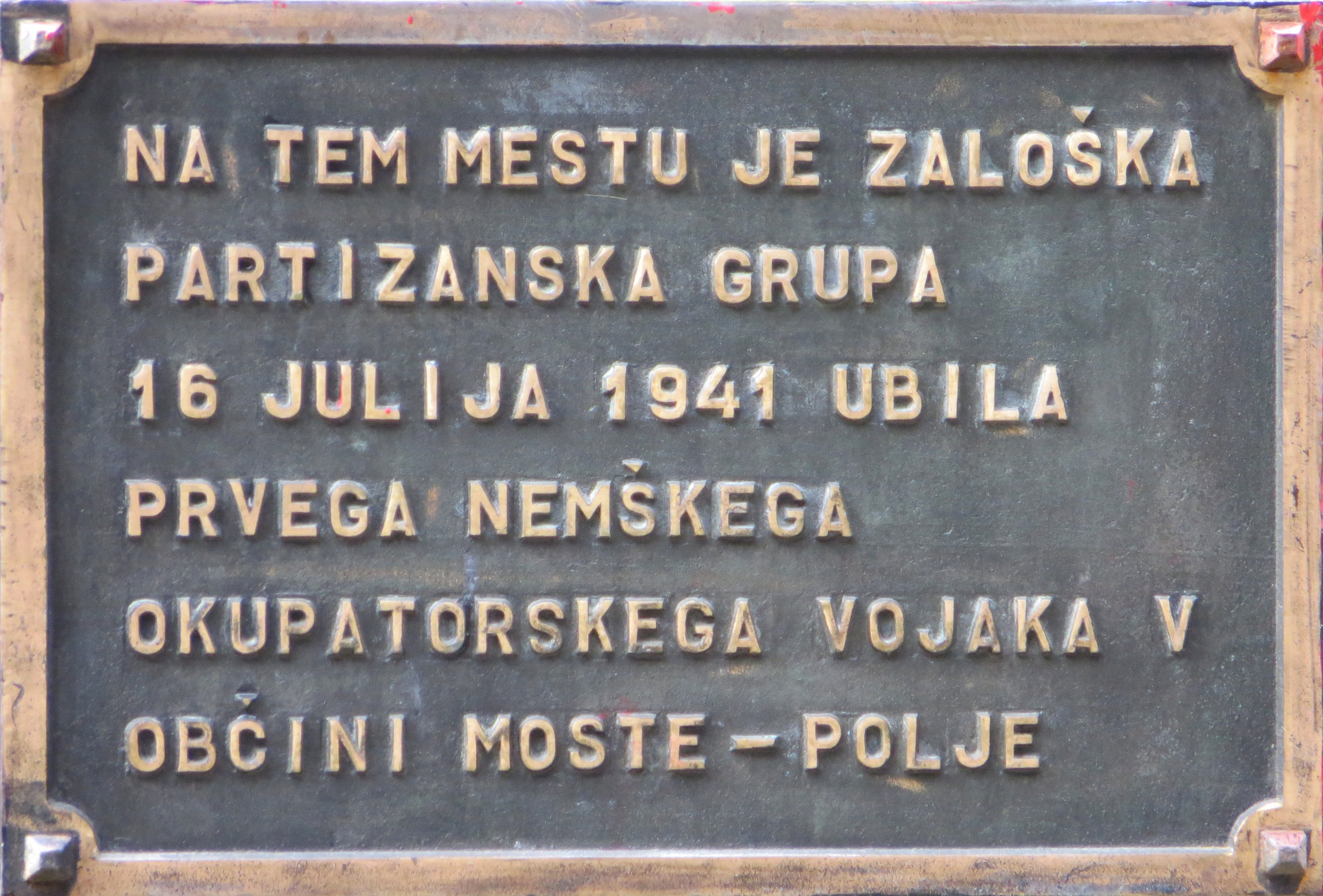 Plaque in Besnica, City Municipality of Ljubljana, Slovenia marking the site where the first German soldier was killed in Moste-Polje municipality in the Second World War